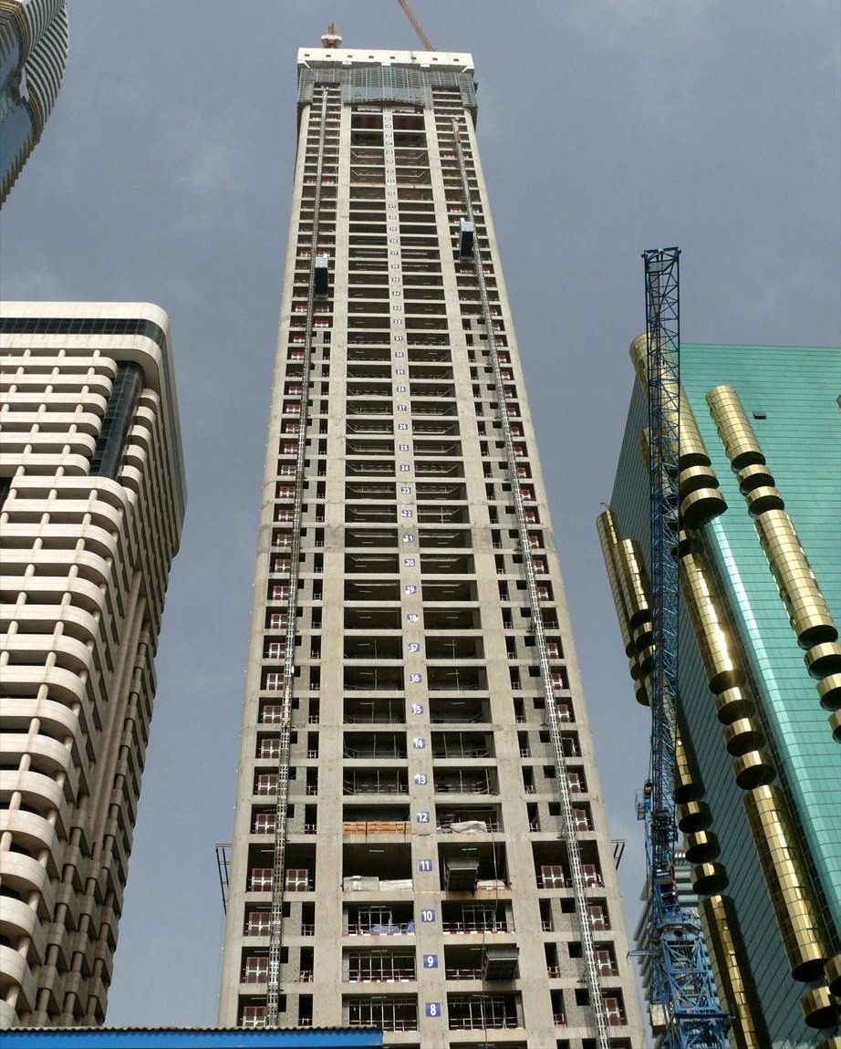 This is a photo showing the construction of Ahmed Abdul Rahim Al Attar Tower, located along Sheikh Zayed Road in Dubai, United Arab Emirates, on 7 March 2008.